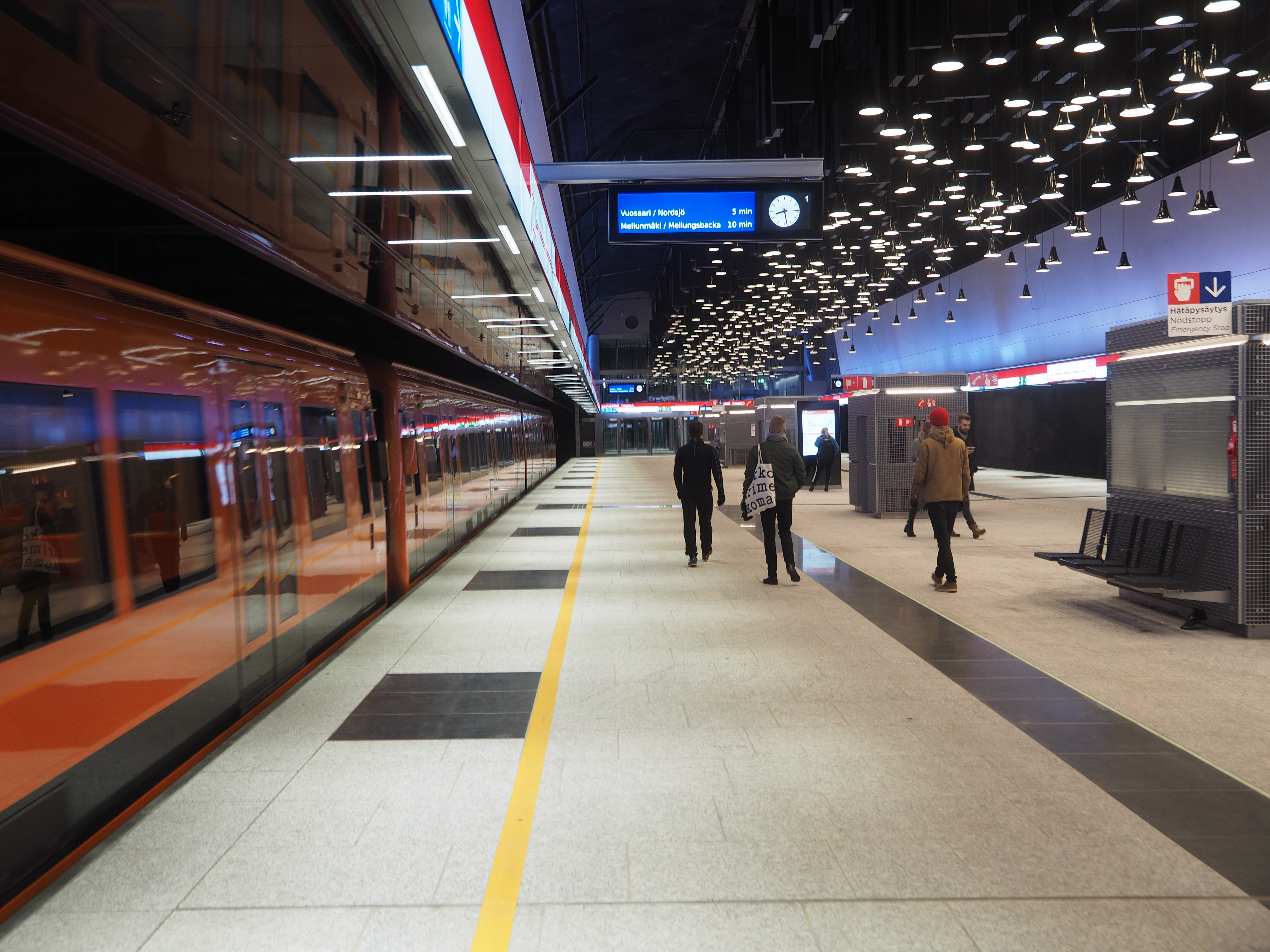 Interior of Lauttasaari metro station in Helsinki, Finland.